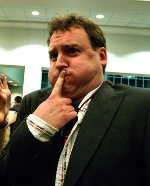 Andy Merrill at a conference.